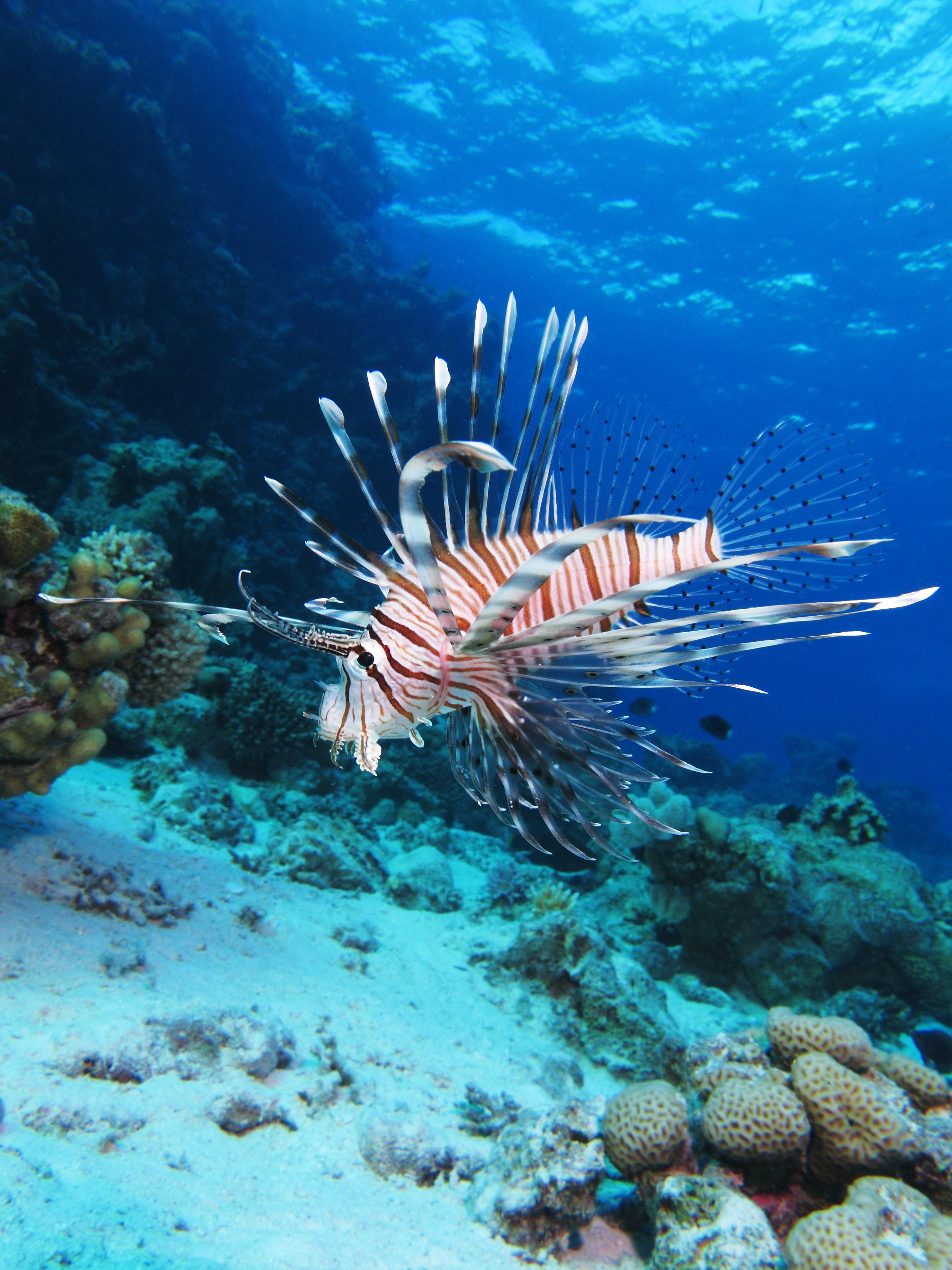 Common lionfish (Pterois miles) at Shaab El Erg reef in the Egyptian Red Sea